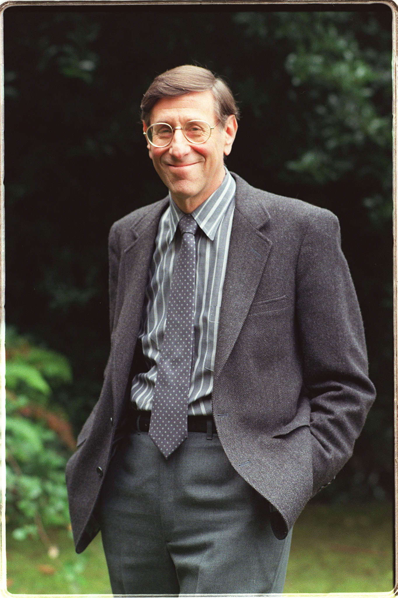 GERALD Nachman, San Francisco writer